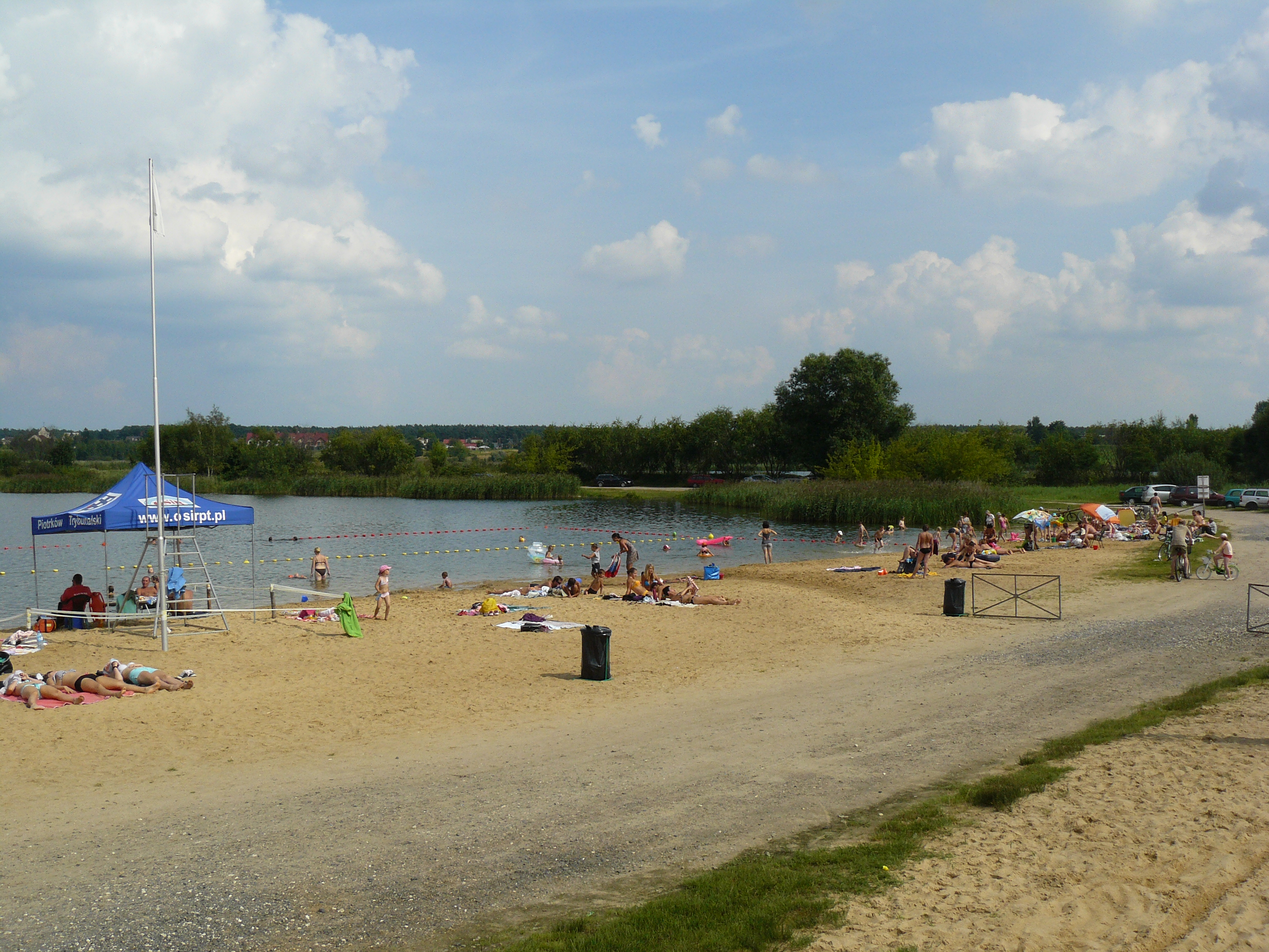 Municipal swimming site.